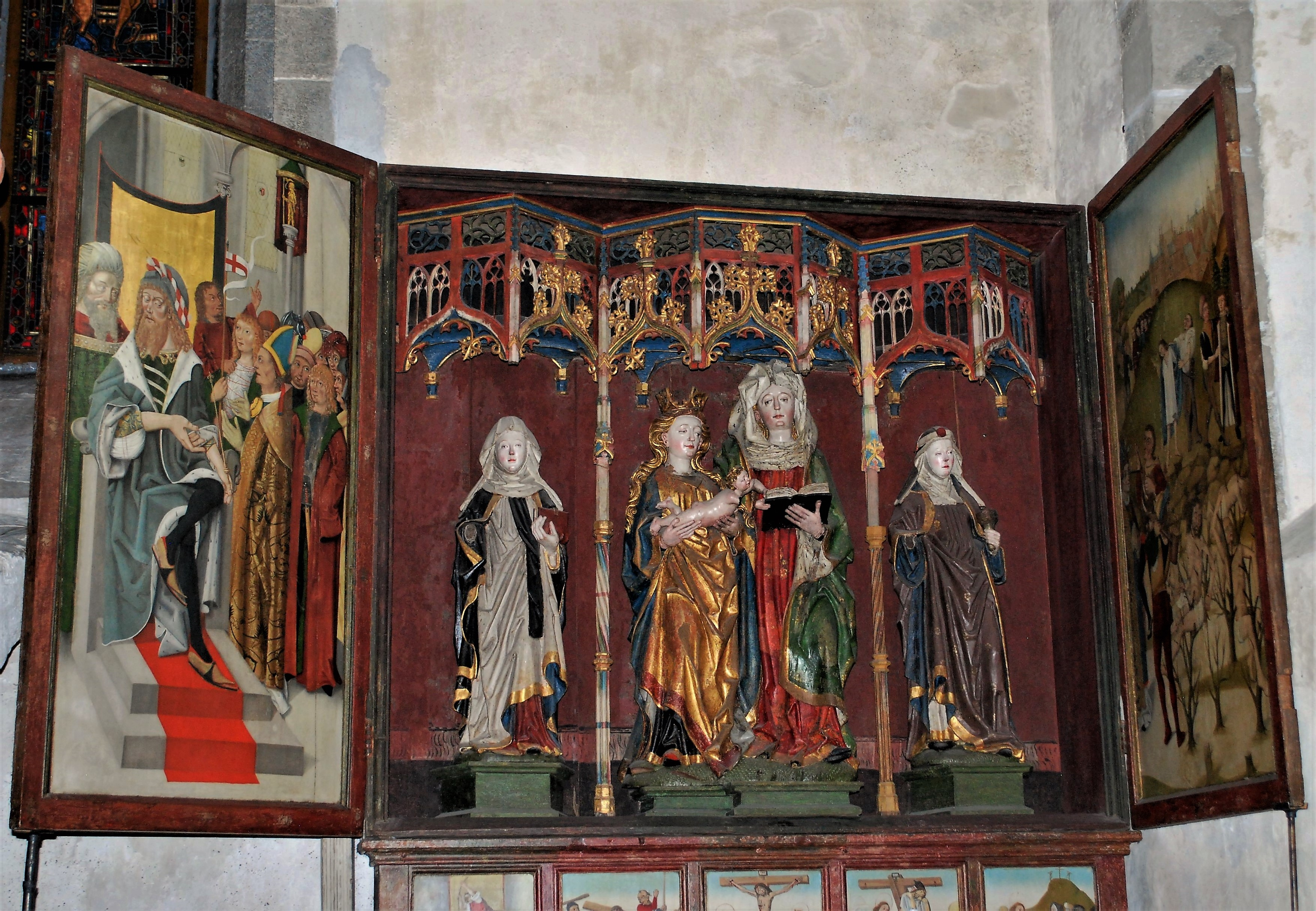 Church of Trondenes, Harstad, Norway.